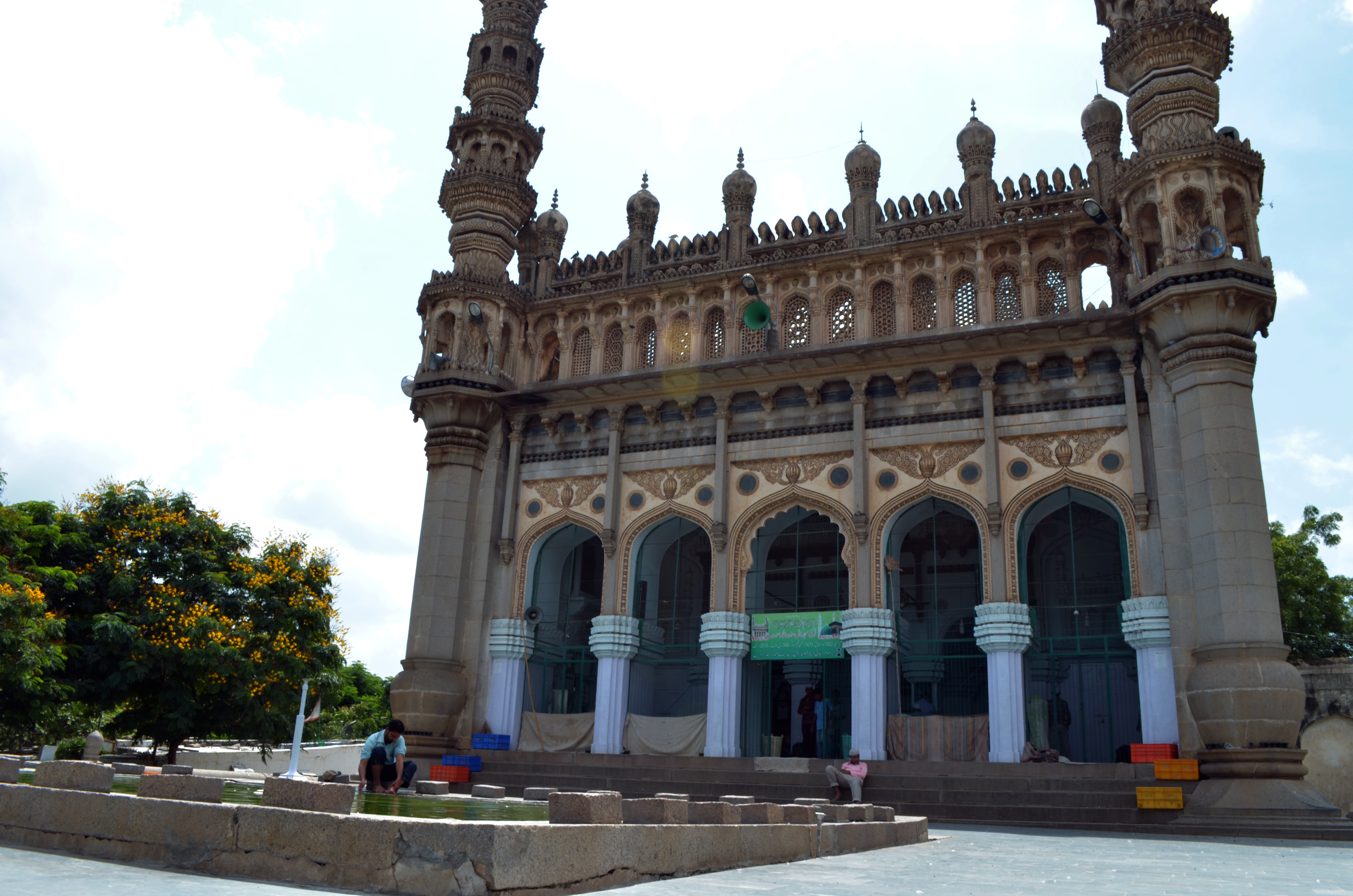 Toli Masjid